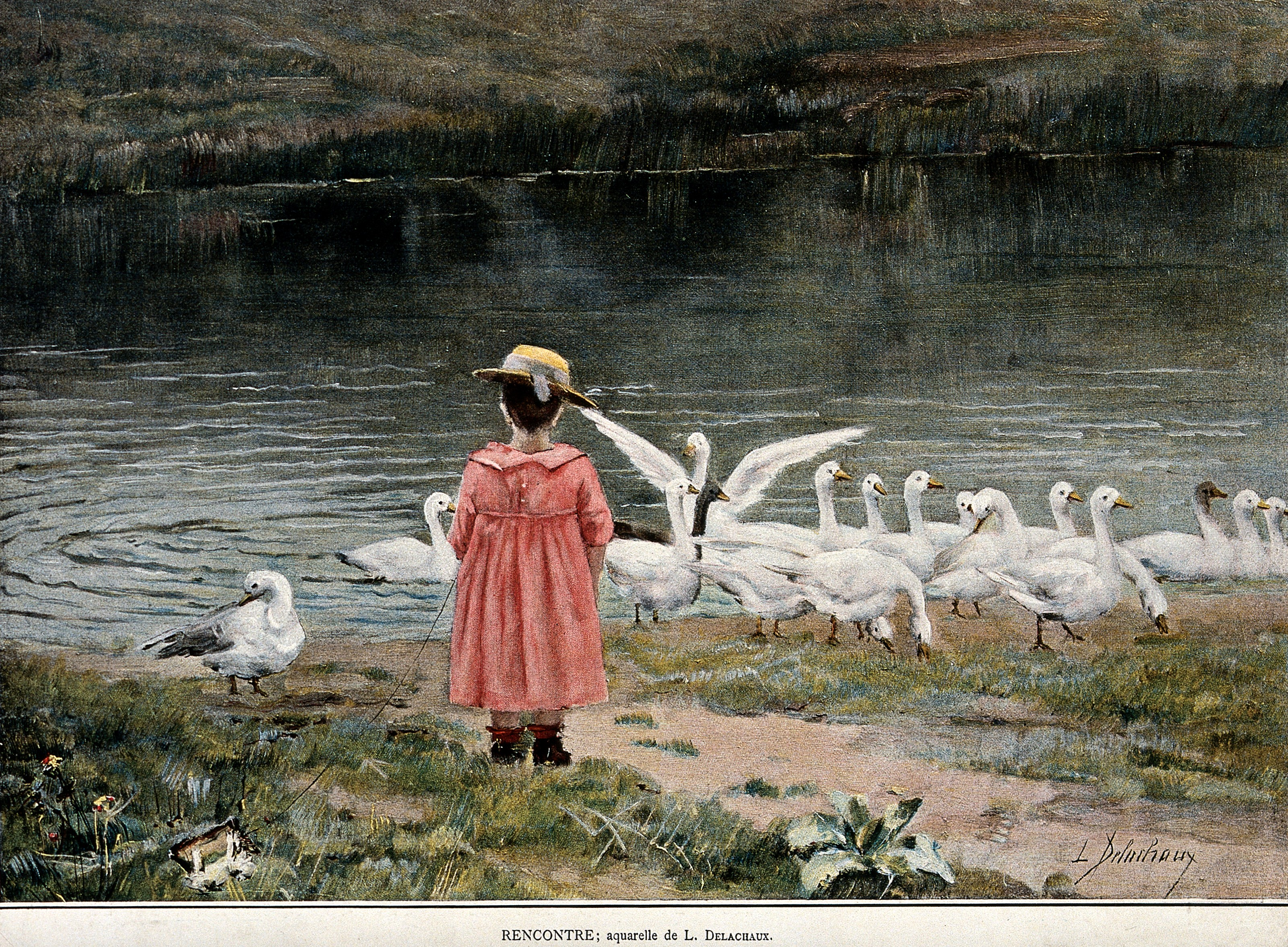 A young girl encounters a flock of birds at the edge of a lake. Process print after L. Delachaux. Iconographic Collections